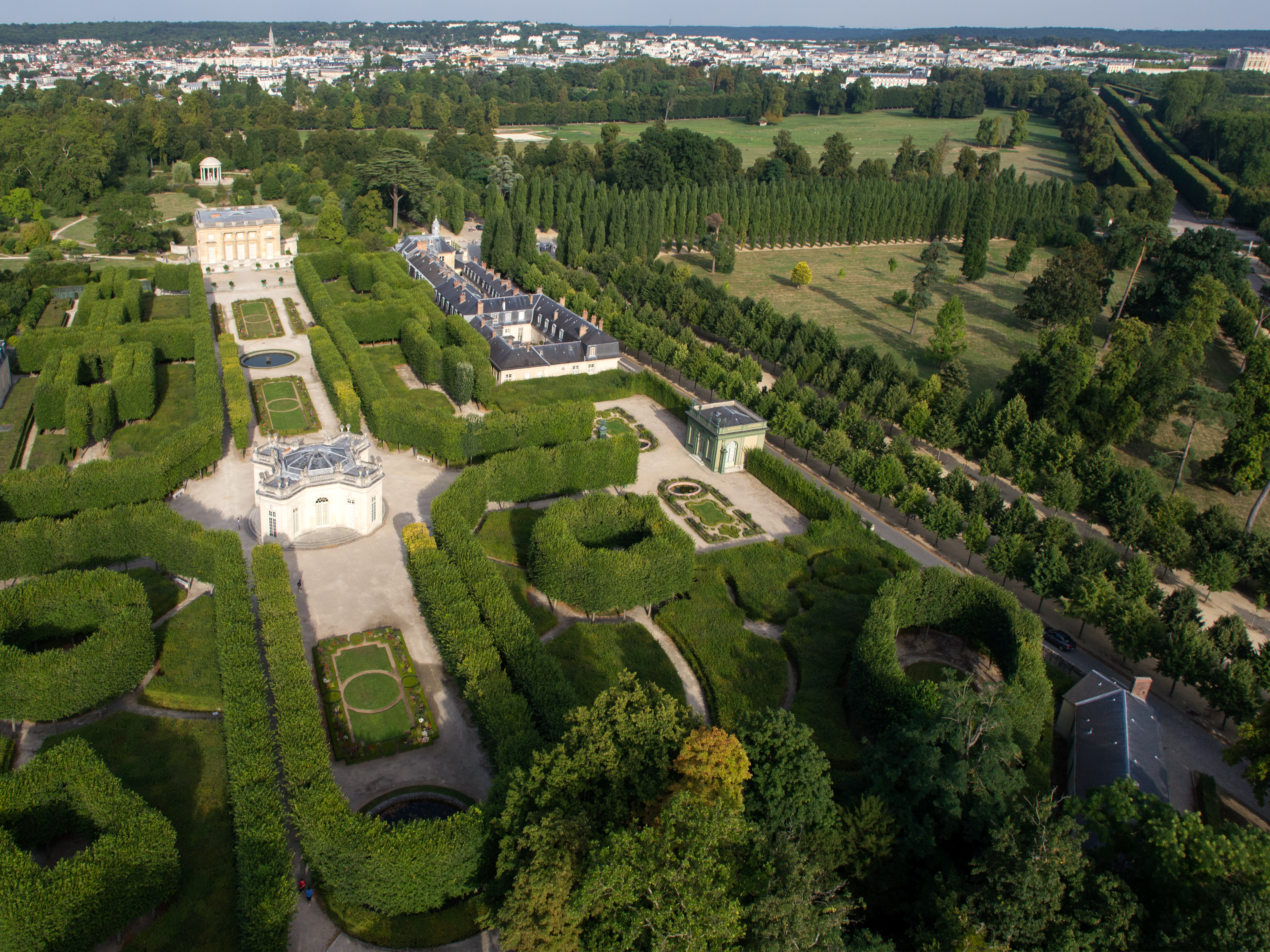 Aerial view of the Petit Trianon, Domain of Versailles, France